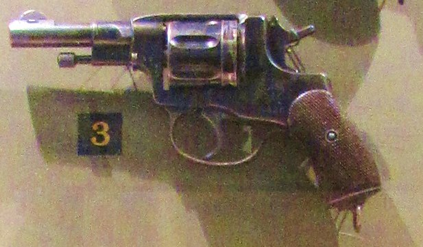 7.62 mm Nagant revolver, shortened special model, double-action, produced 1929.